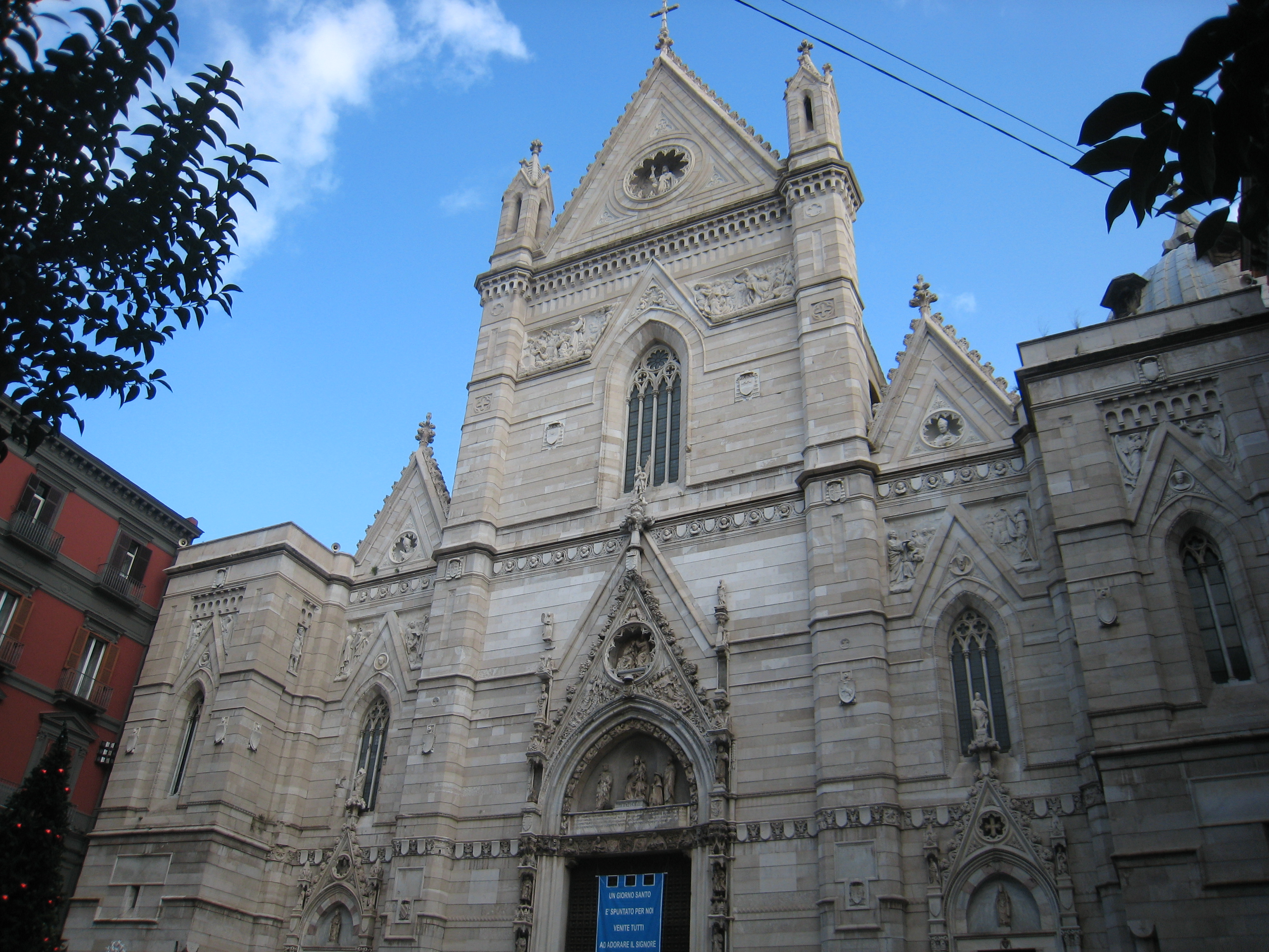 Naples Cathedral façade Facciata del Duomo di Napoli